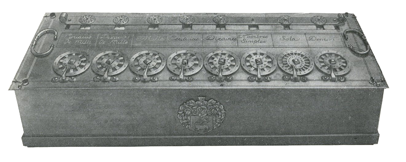 Photo of a 'Pascaline', the mechanical calculator invented and manufactured by French scientist Blaise Pascal between 1642 and 1652. The device was made in various versions; this version was made for adding French currency. The wheels are marked with the denominations, from least significant on the right: deniers; sols (= 12 deniers); livres (= 20 sols); and then 10 livres; 100; 1,000; 10,000; to 100,000 livres on left. So the machine could represent up to 999,999 livres. To enter a digit in the device, a stylus was inserted between the appropriate wheel's spokes and the wheel was turned until it reached the stop at the bottom, like dialling a telephone. Each digit was entered in turn, and the sum would appear in the windows at top. The device could only add, and subtraction had to be done with nine's compliment addition. Alterations: deleted figure number, rotated image to justify, and increased brightness.